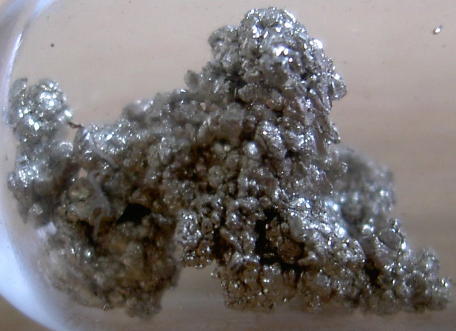 Pure strontium in protective argon gas atmosphere.